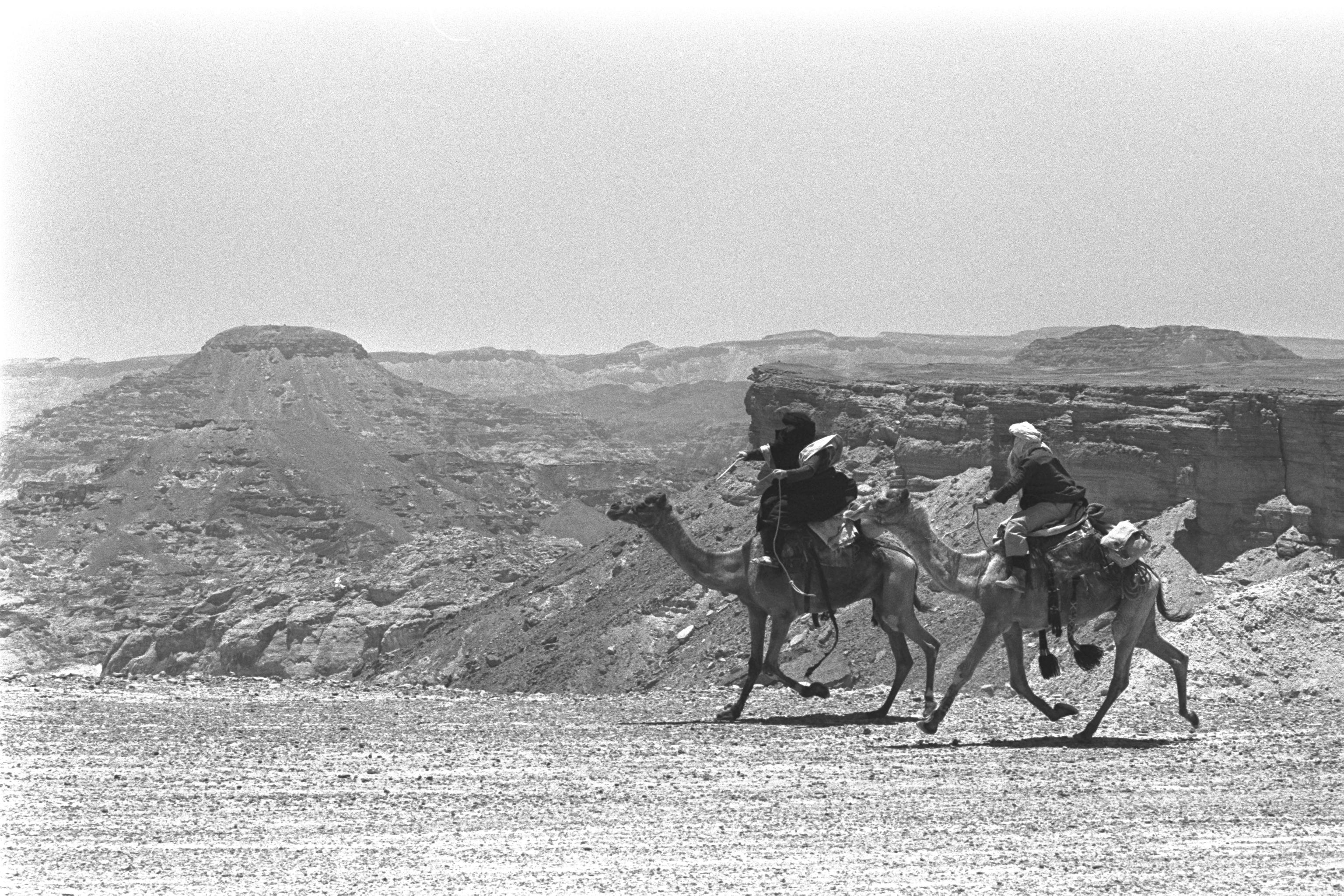 Camel riders in the Negev near Eilat, extras on the set of the movie "Ashanti." רוכבי גמלים בנגב ליד אילת, ניצבים על הסט של הסרט "אשנטי". Photo: Moshe Milner (1946–) Alternative names Miylner, Moše; Milner, Mosheh; Moshé Milner; Milner, M.; Mîlner, Moše; Miylner, MošehDescriptionIsraeli photographerצלם ישראליDate of birth 1946 Location of birth Germany Authority control : Q28750411 VIAF: 100999744 ISNI: 0000 0001 0804 0507 LCCN: n82072104 GND: 115699732 BNF: 15548788n WorldCat creator QS:P170,Q28750411 , 26/06/1978.